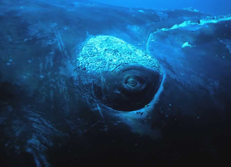 Face to face with the whale under water